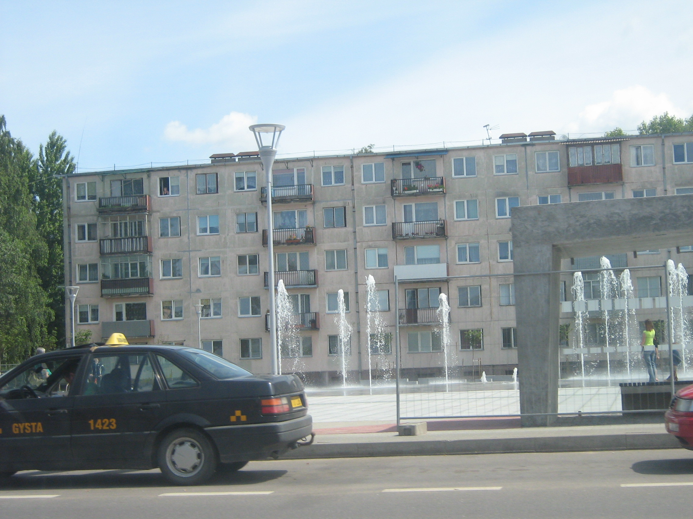 Fountains in Jonava